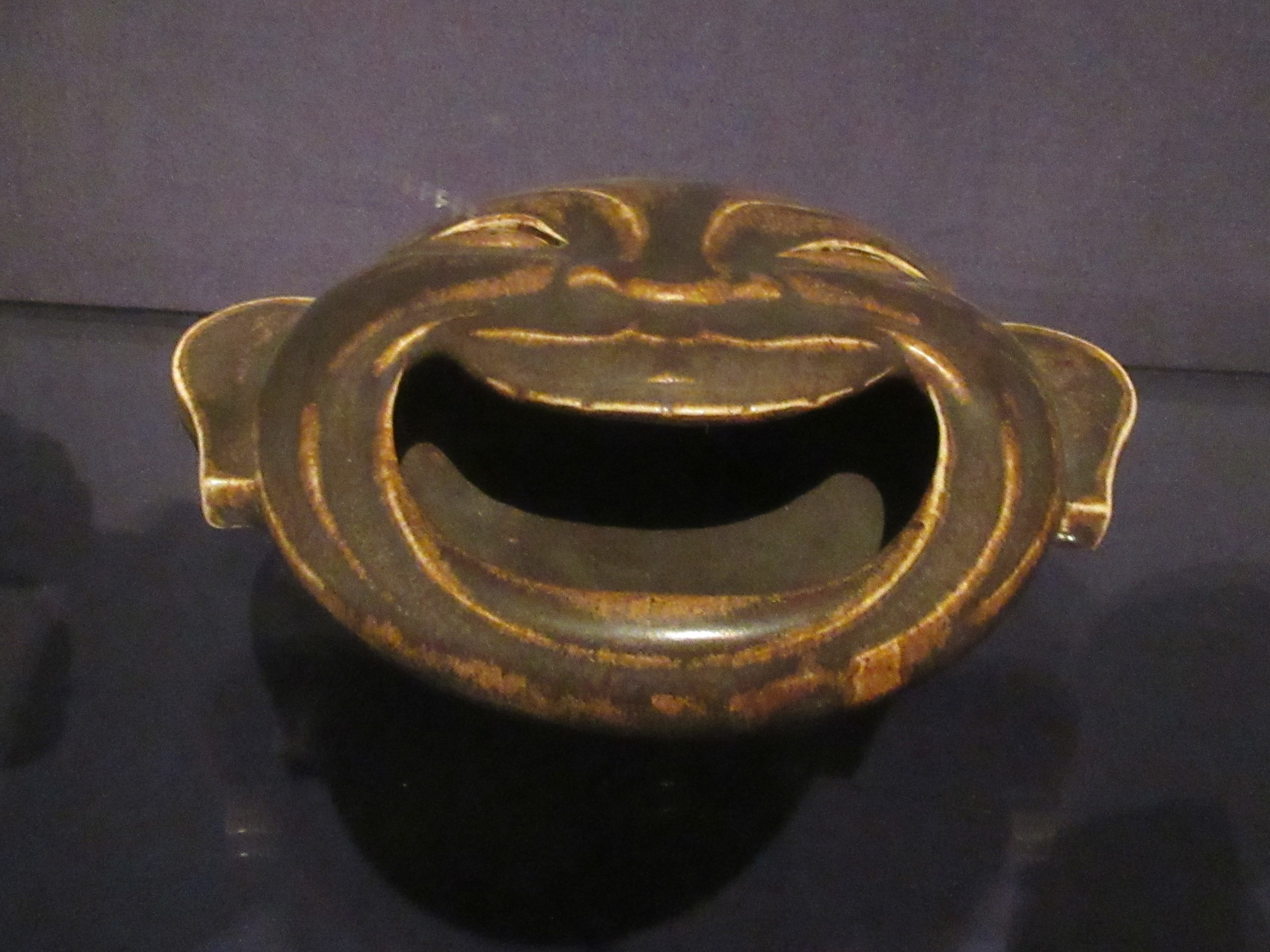 Ash tray by Jens Jacob Bregnø made for Saxbo. 1930-34.